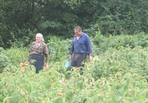 Raspberry pickers in village Chereshovitsa, Bulgaria